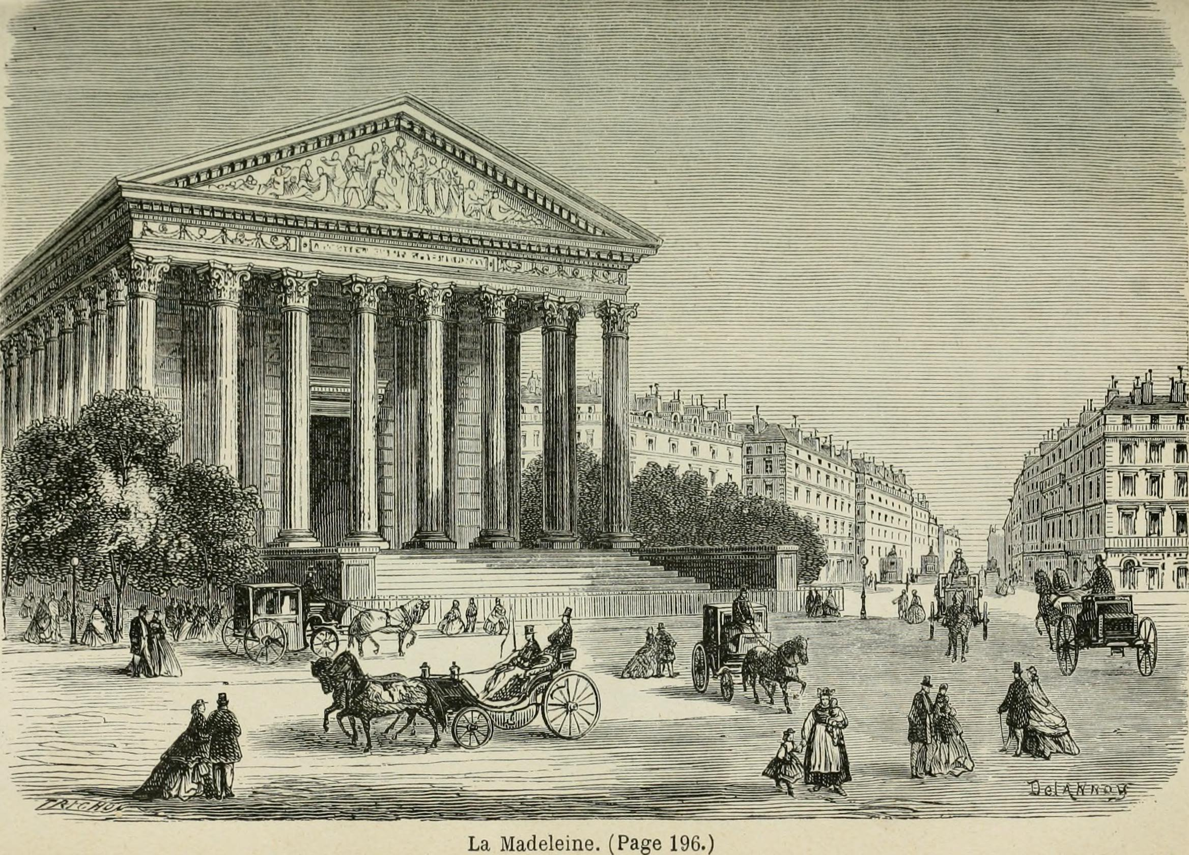 Title: Les merveilles du nouveau Paris-- Year: 1867 (1860s) Authors: Décembre, Joseph, 1836-1906 Alonnier, Edmond, 1828-1871 Subjects: Publisher: Paris : Bernardin-Béchet Text Appearing Before Image: u culte catho-lique ; mais elle ne fut terminée que sous le règne de Louis-Thilippe; lédifice a 103 mètres de longueur sur 43 mètresde large ; lintérieur est dune magnificence extrême etforme un vaisseau à trois voûtes. (F. page 197.) Saint-Vincent de Paul, dans le style des anciennes basi-liques avec un péristyle grec, fut bâti de 1824 à 1844.Léglise Notre-Dame de Lorette est construite en un styleanalogue et donne son nom à un certain genre de femmesqui habitent le quartier avoisinant et dont les mœurs sontloin dêtre religieuses. Commencée en 1824, sous les planset sous la direction de larchitecte Lebas, elle fut terminéeen 1836. Elle a la forme dune basilique et a trois nefs, sixchapelles latérales et deux autres au bras de la croix. Cestune imitation de la magnifique basilique Sainte-Marie Ma-jeure de Rome; et, comme toutes les églises dItalie, elle estdécorée avec un luxe un peu mondain. On y trouve ungrand nombre de tableaux dus à nos meilleurs artistes et Text Appearing After Image: SAINT-GERMAIN LAUXERROIS. 199 peints sur place ; toutes les parois sont couvertes de pein-tures, de dorures ou de sculptures. Léglise Saint-Germain lAuxerrois, place Saint-GermainlAuxerrois, en face la colonnade du Louvre, désignéedabord sous le nom de Saint-Germain le Rond, à cause desa forme, fut achevée, selon toute apparence, par Chil